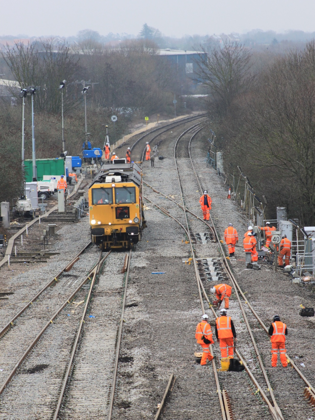 Colas Rail's Matisa switch and crossing tamper 75406 tamping ballast under newly-laid track at Taunton East Junction.